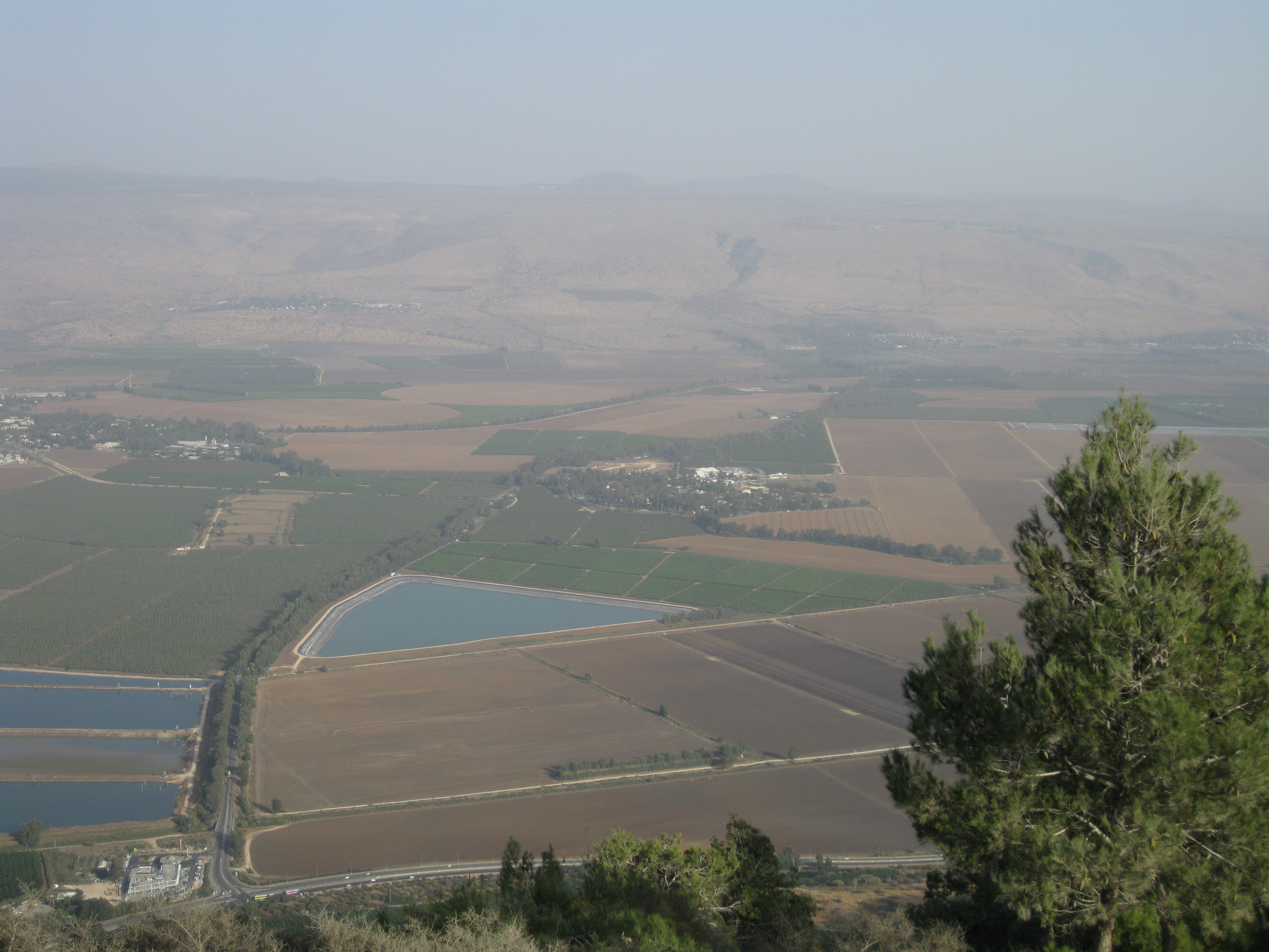 Gome junction in the Galilee Panhandle of highway 90 and regional route 977.